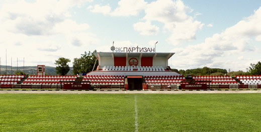 Снимка на стадиона от сезон 2015/2016